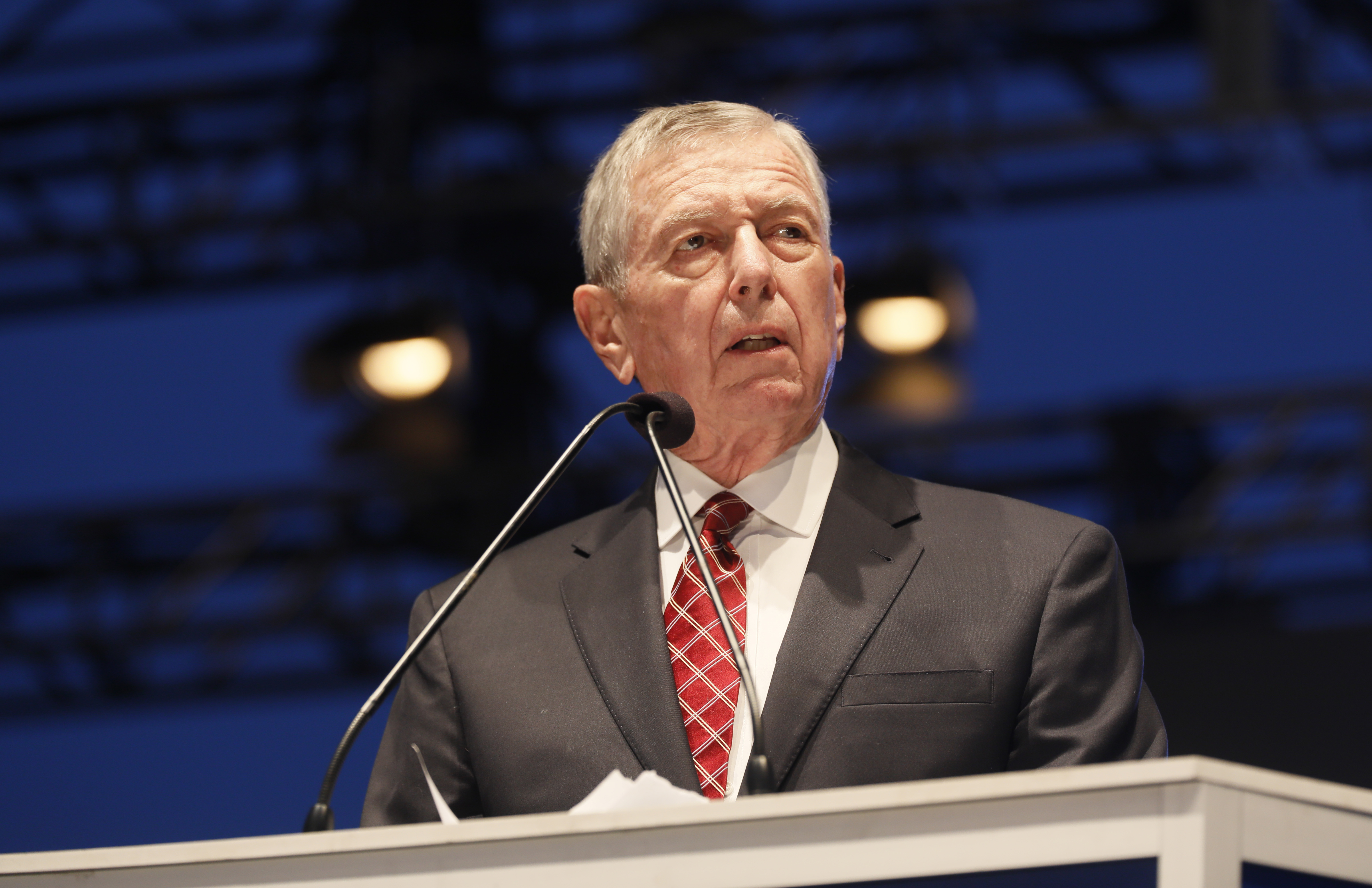 John Ashcroft delivers remarks as officers and agents of U.S. Customs and Border Protection join law enforcement counterparts from across the nation in the 30th Annual Candlelight Vigil to memorialize fallen officers on the National Mall in Washington, D.C., May 13, 2018. U.S. Customs and Border Protection Photo by Glenn Fawcet